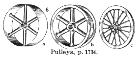 a public-domain drawing of several pulleys, taken from the 1911 Webster's Unabridged Dictionary